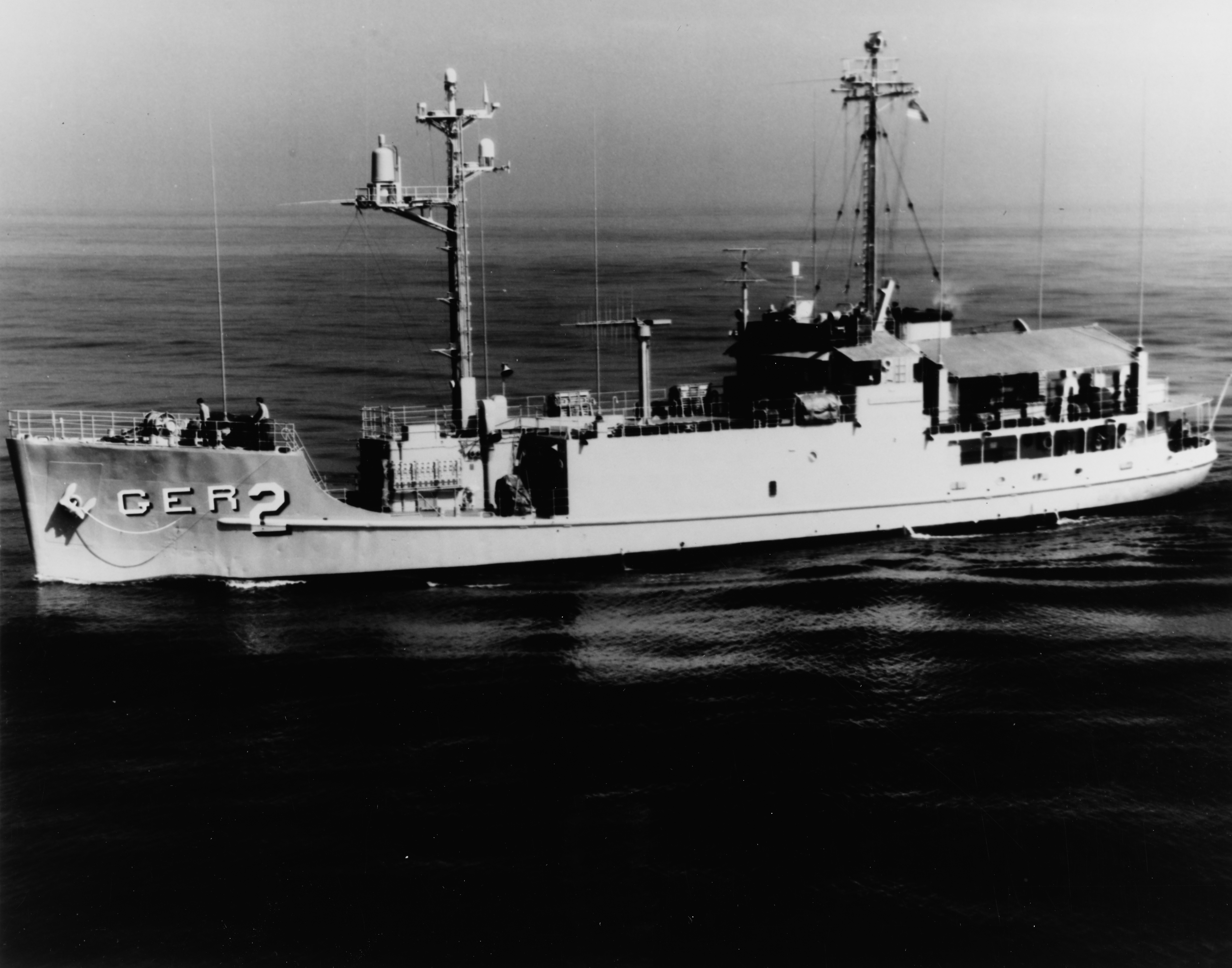 The U.S. Navy signal intelligence gatering ship USS Pueblo (AGER-2) off San Diego, California (USA), on 19 October 1967.